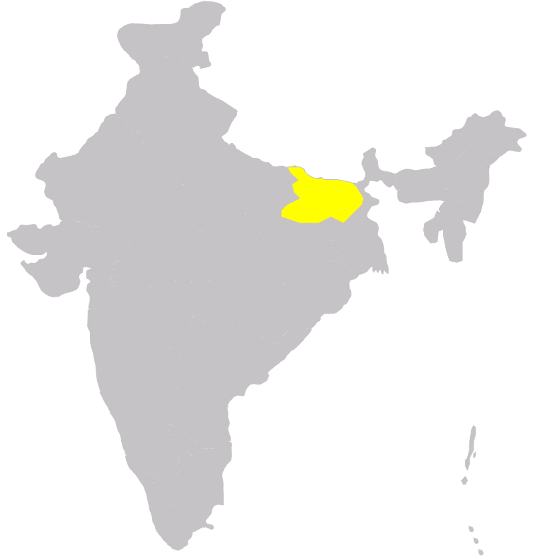 Indian state of Bihar